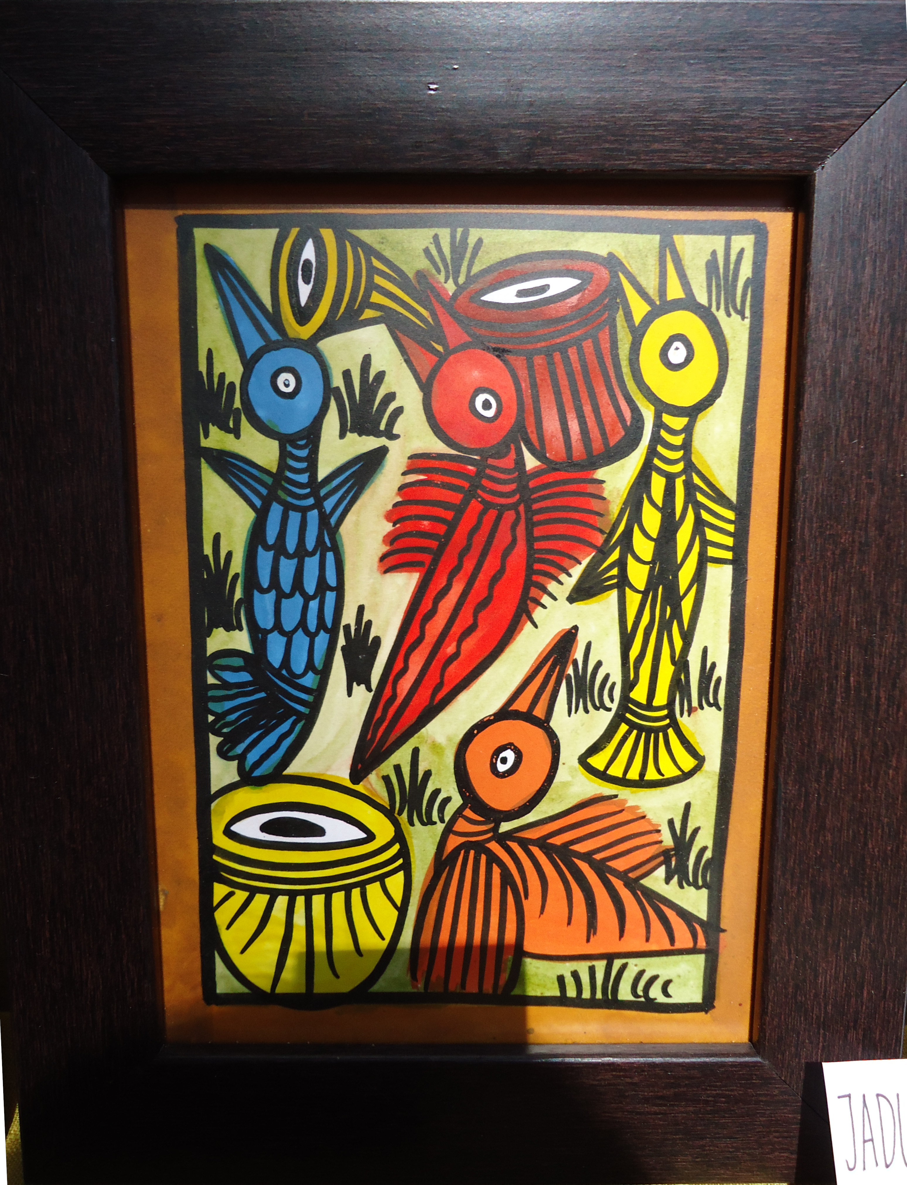 Jadupatua are handcrafted scroll paintings from West Bengal and Bihar, India. Jadu patua literally means "magical painters".